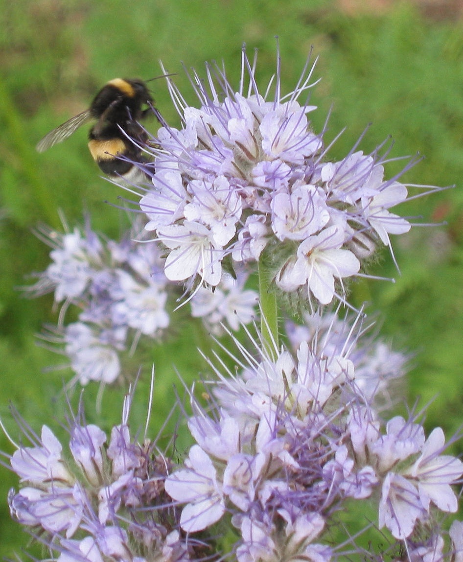 Phacelia tanacetifolia with Bombus terrestris (Phacelia met gewone aardhommel)